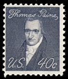 1969 stamp honoring Thomas Paine